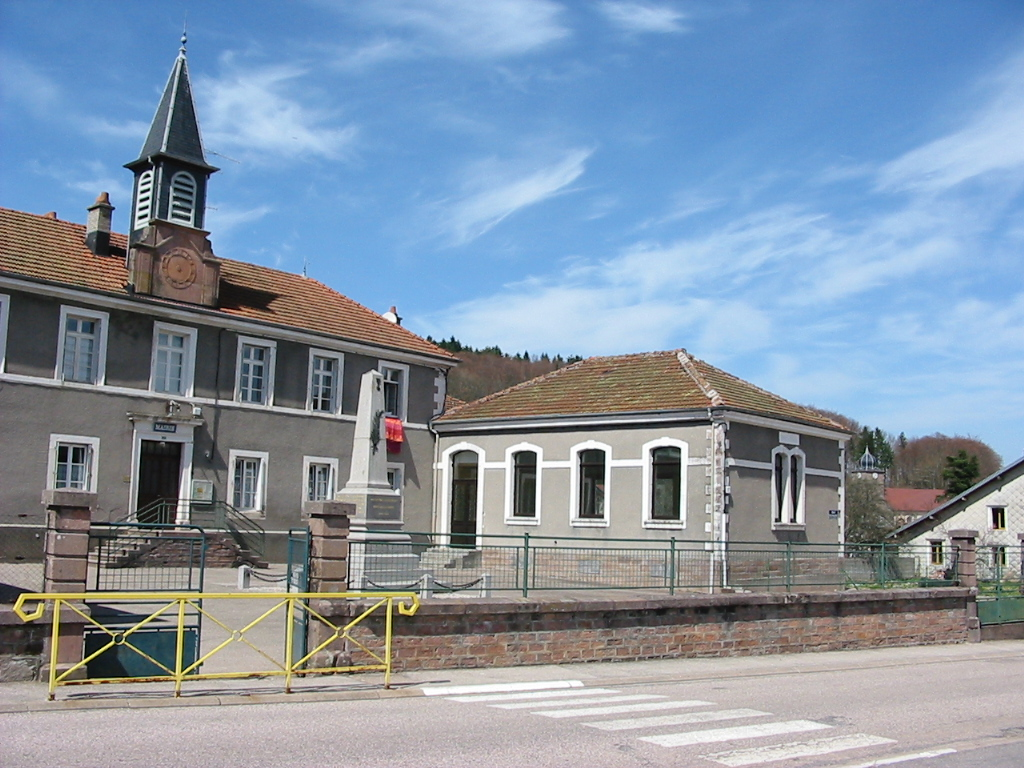 The building used as town hall, school and community centre and the war memorial of Jussarupt (France). Photo personnelle prise le 23 avril 2006 / Personnal photo taken on 23rd April, 2006. Copyright © Christian Amet